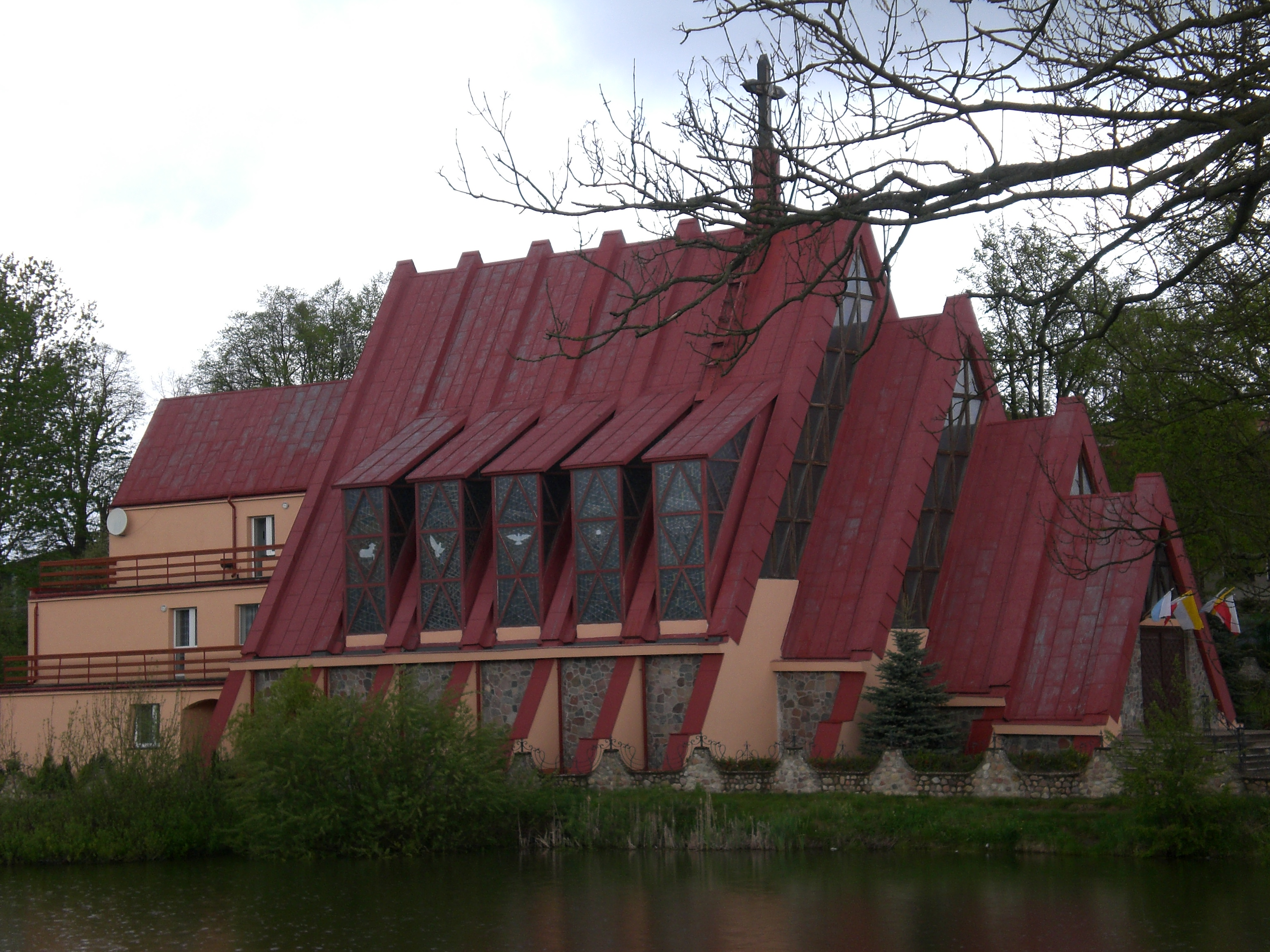 Leźno - parish church